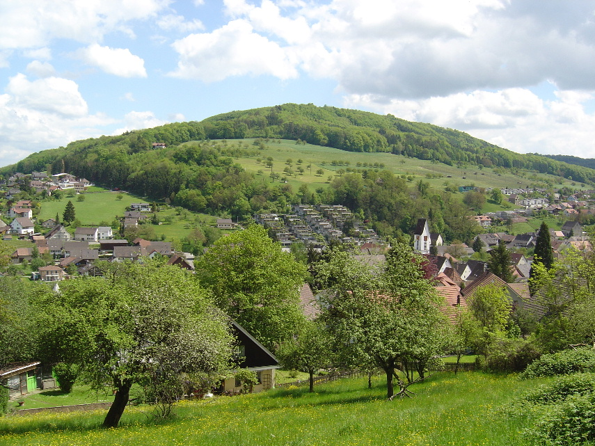 View of Zeiningen with the Zeiningerberg in the background